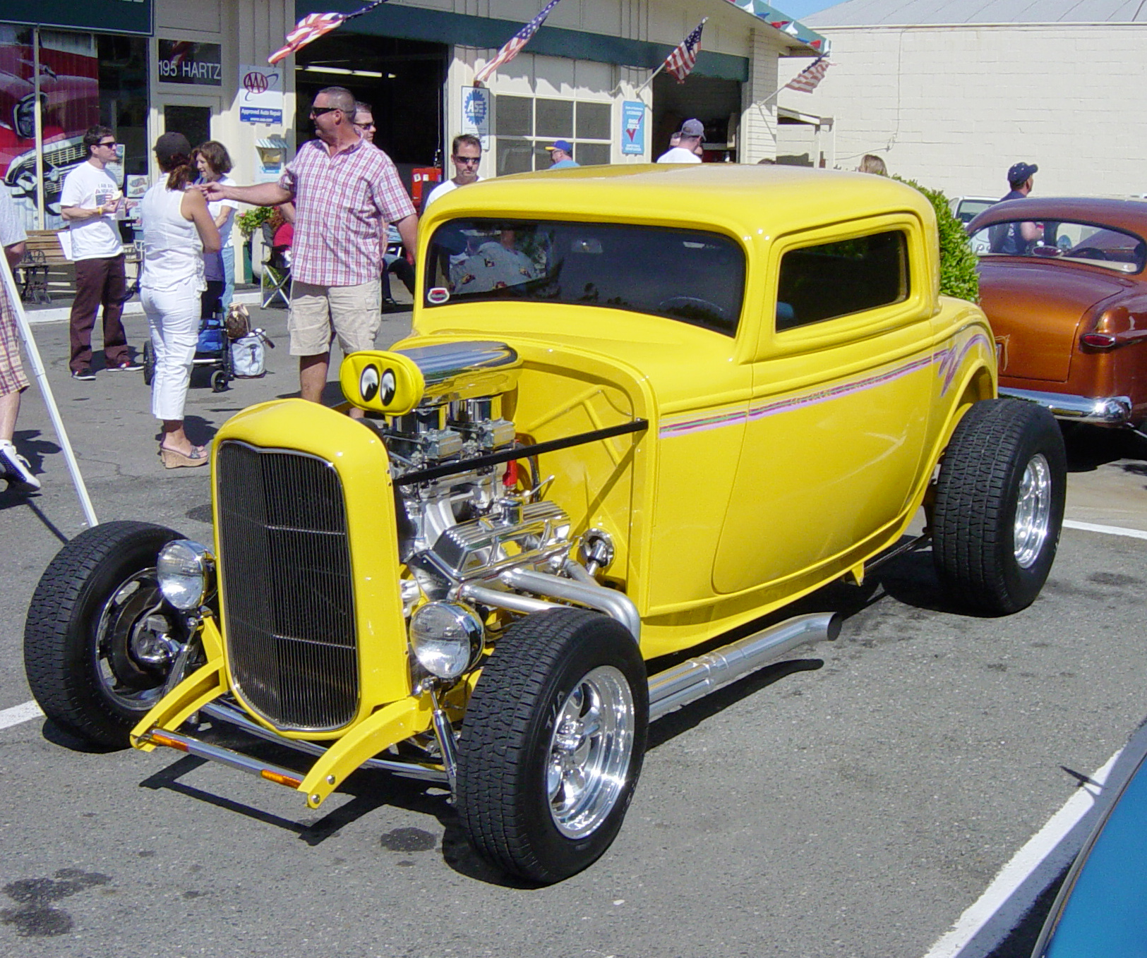 Three window coupe hotrod with chopped top.